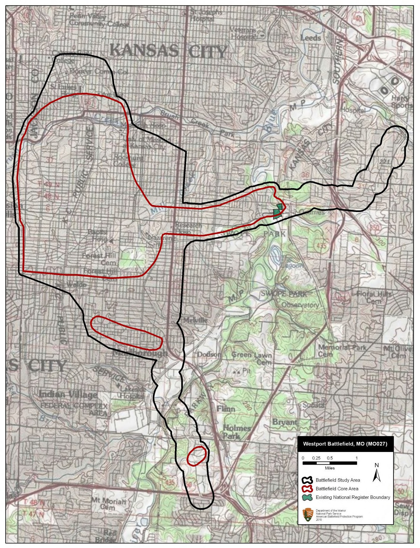 Map of battlefield core and study areas. The 1993 Study Area boundaries did not include the October 23rd action at Byram’s Ford. The CWSAC incorrectly included that action as part of the Byram's Ford battlefield (MO026). The ABPP therefore removed that action from MO026 and incorporated it into Westport (MO027). The ABPP made extensive revisions to the 1993 Study Area. The Study Area now reflects the following: 1) the Federal approach route from the east; 2) the action at Byram's Ford on October 23rd; 3) troop movements to the east; 4) fighting to the west along and over the Missouri-Kansas state line; 5) the movement of Price's wagon train to the south from the Byram's Ford area; 6) retreats and advances over open ground toward the Confederate wagon train; 7) skirmishing toward, and the action at, Mockbee Farm; 8) the Confederate route to and across Russell's Ford; 8) the skirmish south of Russell's Ford along the Confederate route of withdrawal; and 9) the Confederate route of withdrawal to the south (the boundary extends only as far as the ABPP was able to identify the course of the historic road to Little Santa Fe). The ABPP expanded the 1993 Core Area to represent the following areas of engagement: 1) fighting at Byram’s Ford on October 23rd; 2) fighting north and south along Brush Creek; fighting to and along the Missouri-Kansas state line; 3) heavy fighting as the Confederate forces began to fall back from Westport (unwittingly) toward Pleasonton’s division; and 4) Shelby's last defensive position along a series of stone walls running east-west. In addition, the ABPP established two new Core Areas. The central Core Area represents the location of the Union attack near the Confederate wagon train and the running battle across the landscape to Mockbee Farm (this action is not to be confused with the Mockbee Farm action on October 22nd). The southern Core Area represents the Federal assault on the Confederate wagon train (which was repulsed).